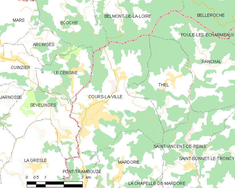 Map of French municipality